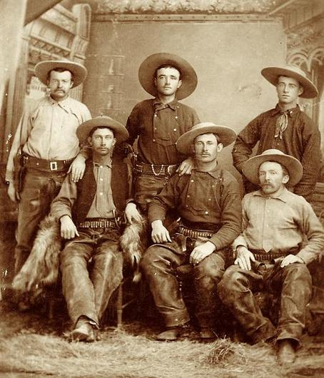 "Slaughter’s Cowboys. A Texas Ranger during the Civil War before becoming a cattle businessman, Texas John Slaughter opened his final ranch near Douglas, Arizona. Robert G. McCubbin, the world’s foremost Old West photo collector, says this circa 1885 cabinet card of his cowboys is the best group photo of real working frontier cowboys."